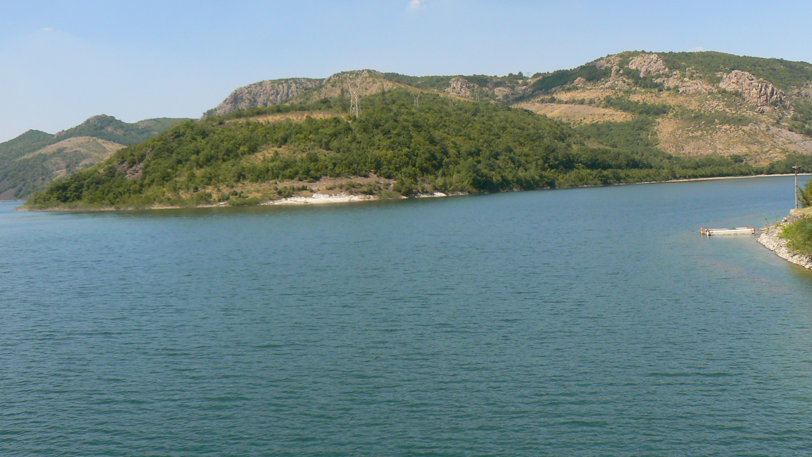 Dam Studen Kladenetz on river Arda, Rhodopes, Bulgaria